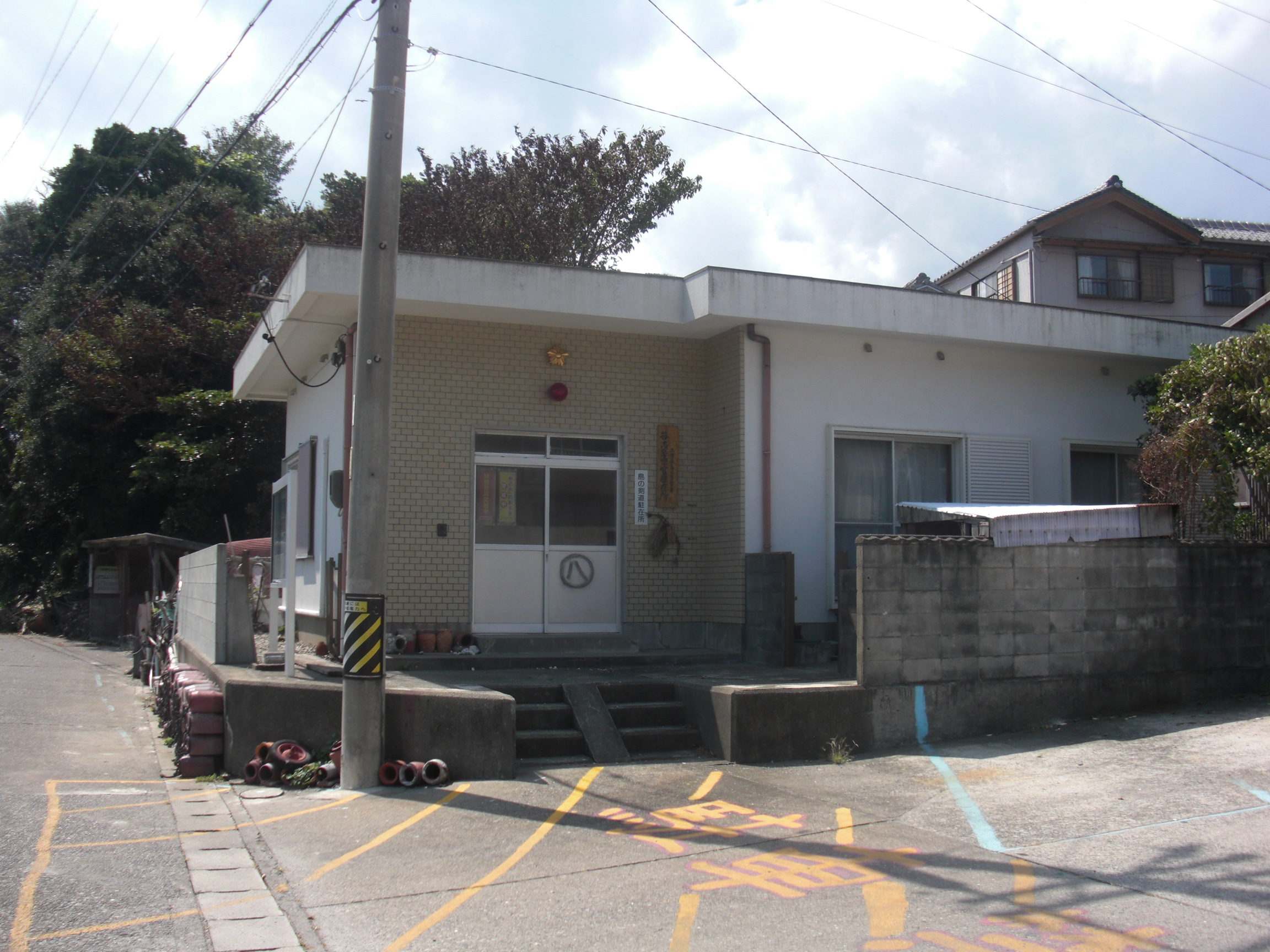 Tōshi Residential Police Box in Tōshi-cho, Toba city, Mie prefecture, Japan.